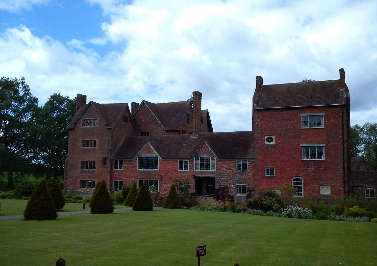 Harvington near Chaddesley Corbett in Worcestershire, England: Harvington Hall